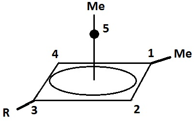 4 sided pyramidal carbokation with numering scheme to facilitate NMR-discussion